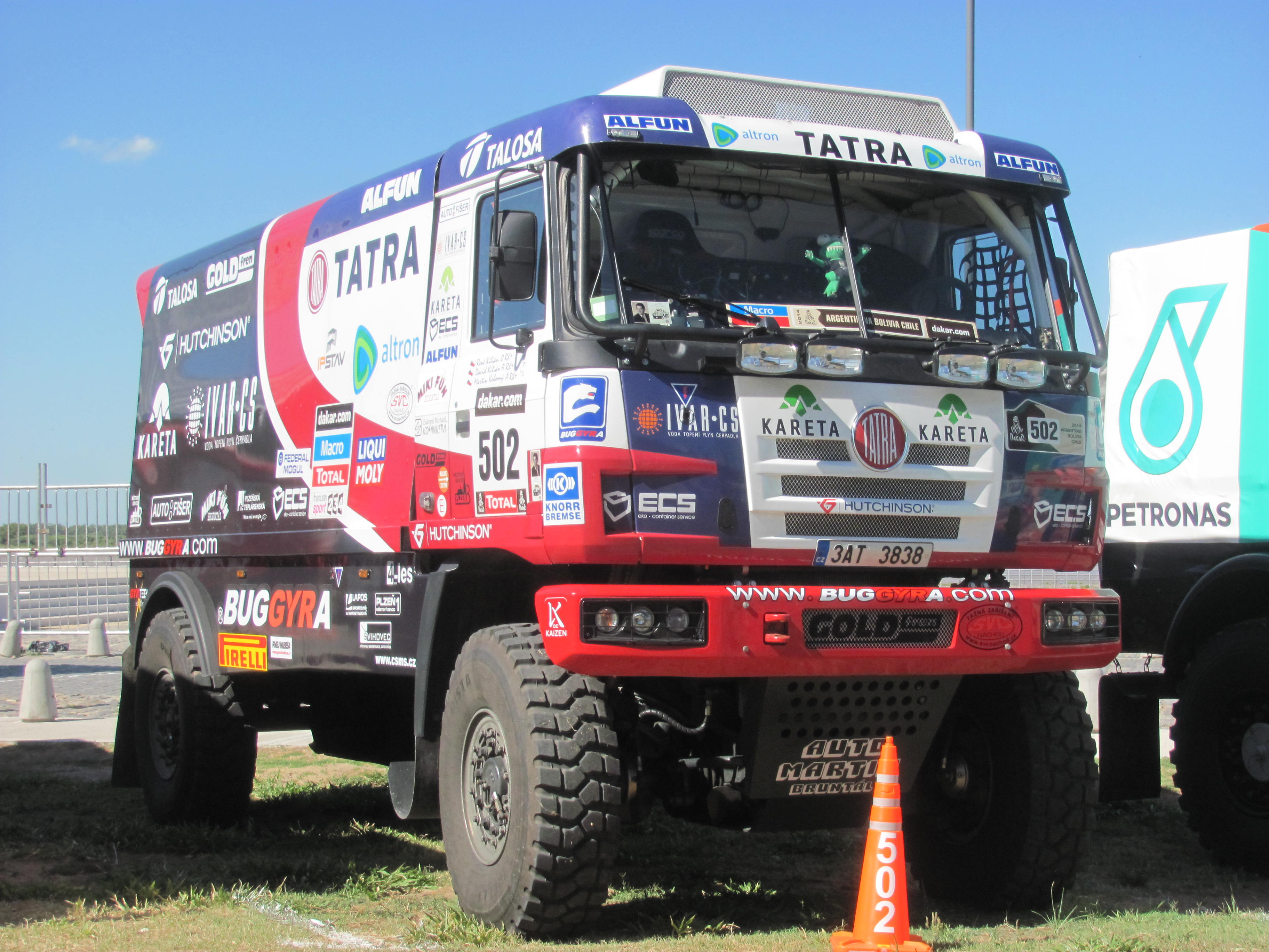 2014 Dakar Rally trucks before the start of the event